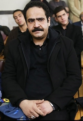 Bahador Maleki, Voice actors from Iran.